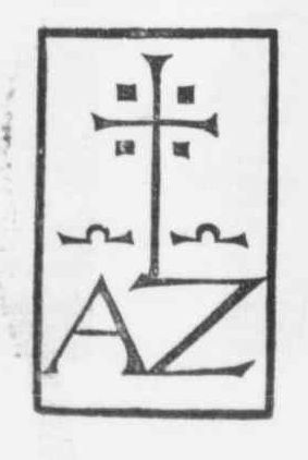 Zarotto's mark